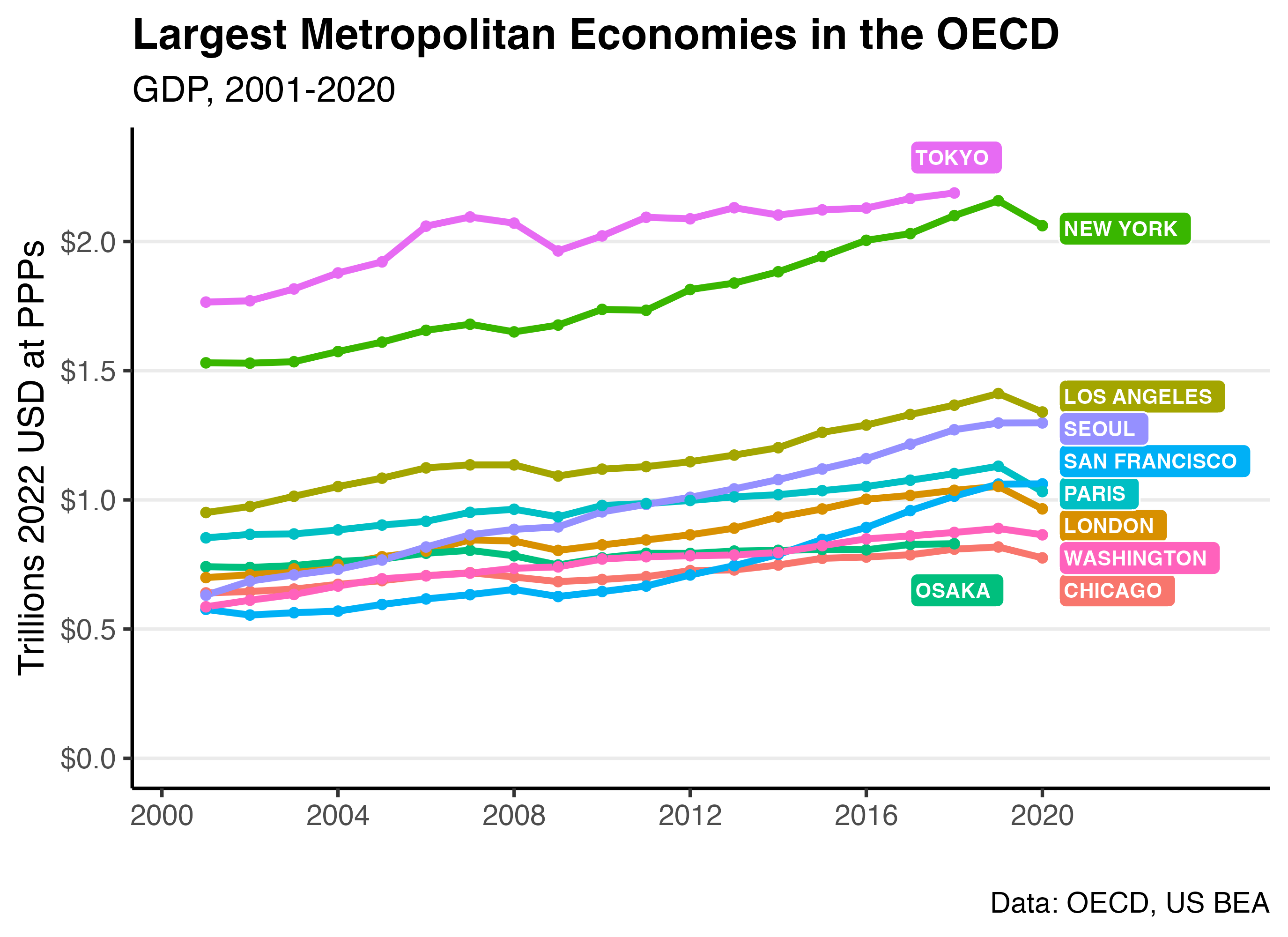 PPP GDP of the top 10 largest metropolitan economies in the OECD from 2001 to 2018.